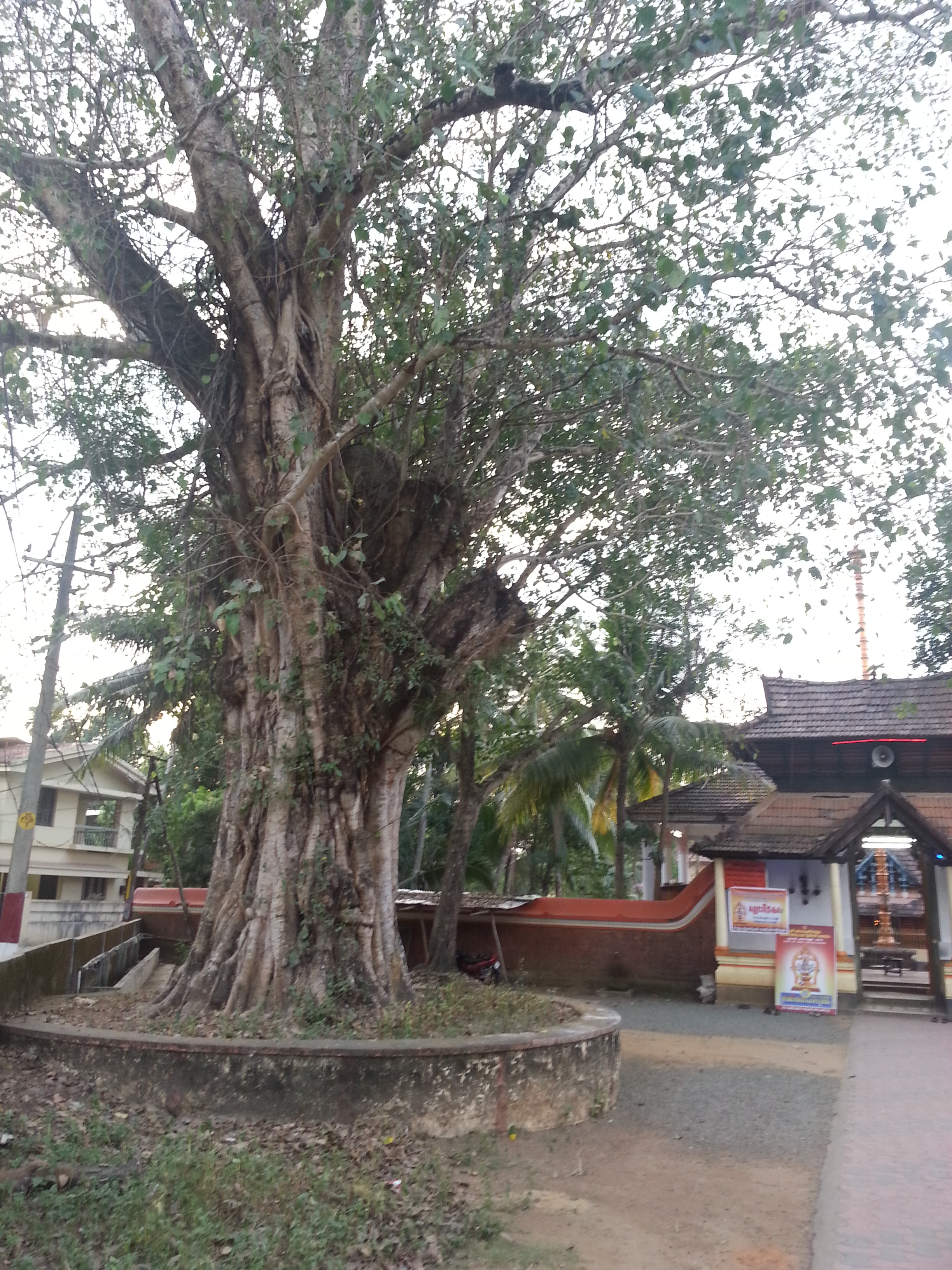 Puzhavathu Sree SanthanaGopala Temple - Banyan Tree